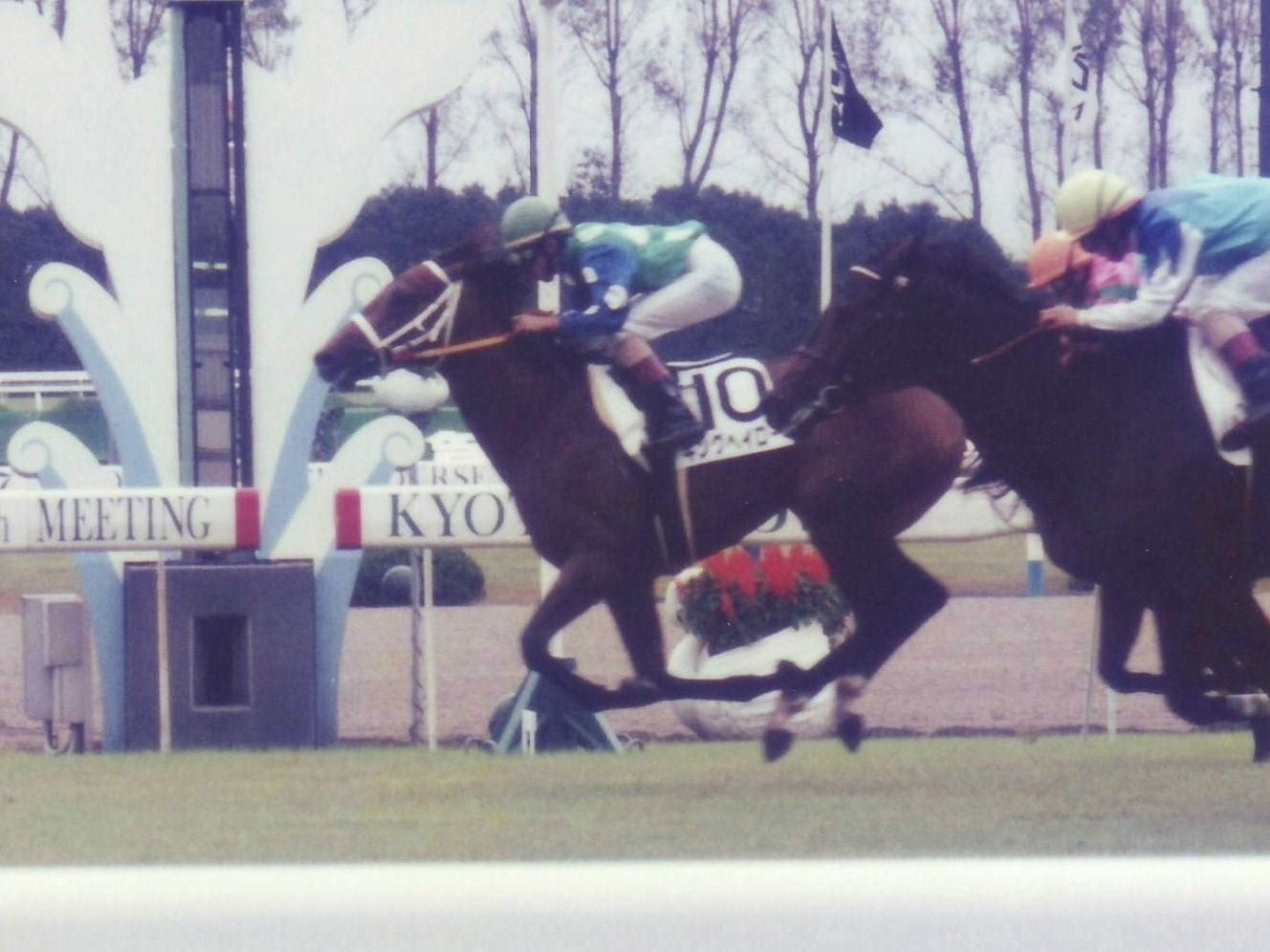 King Halo (house), Famous Japanese racehorse